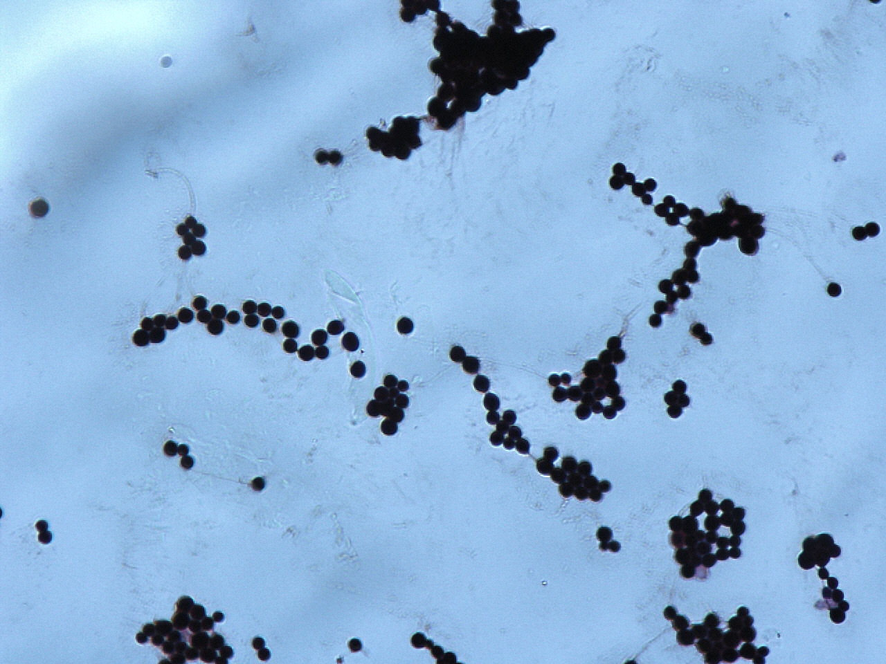 Cryptococcus neoformans, an encapsulated yeast, stained by Gram's method. Preparation by Tina Demers.